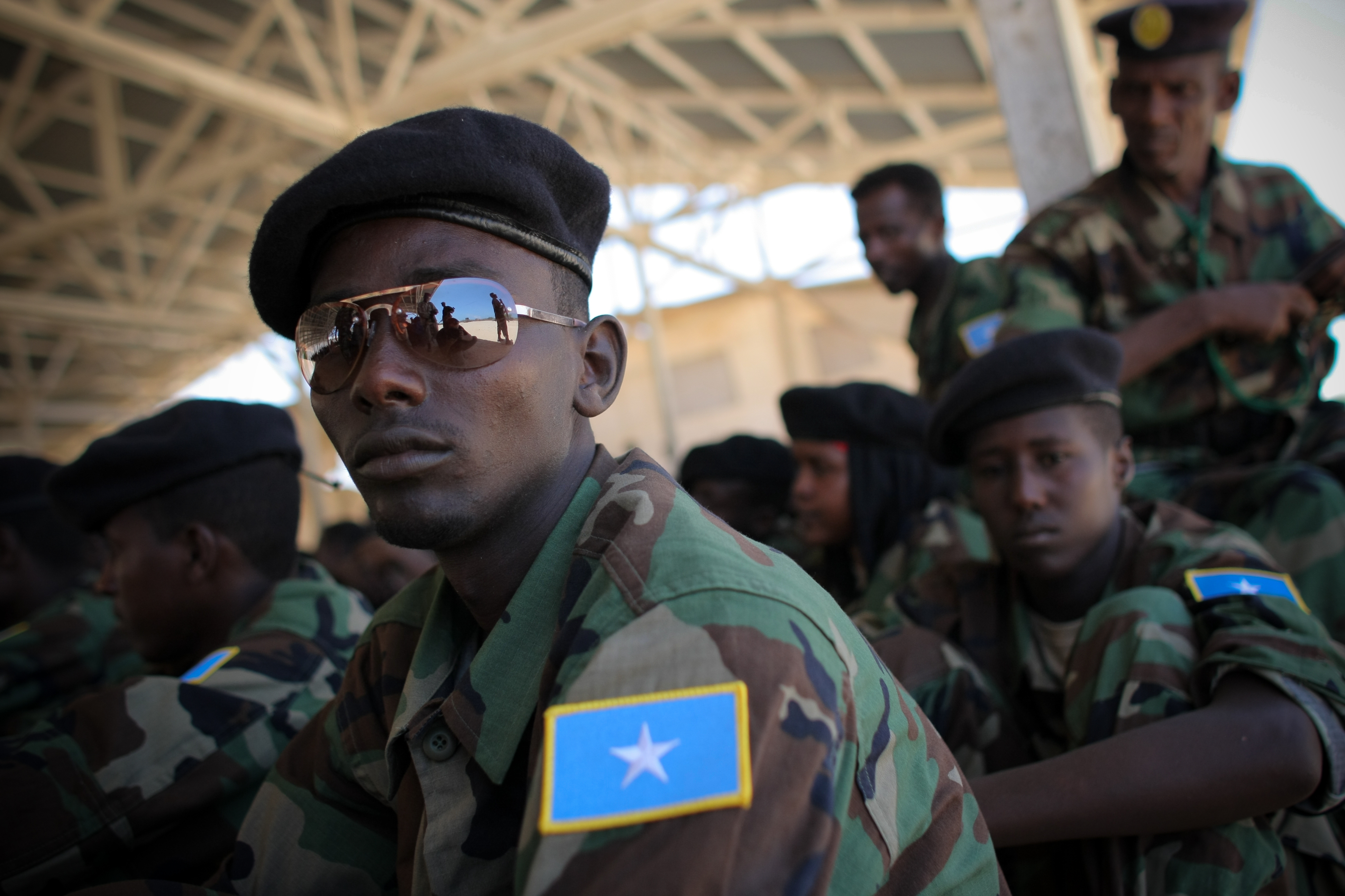 Somali National Army (SNA) soldiers sit during a passing-out ceremony 17 March 2012 marking the conclusion of a 10-week advanced training course conducted by the military component of the African Union Mission in Somalia (AMISOM). 630 troops from different brigades of the SNA were taught and mentored on leadership skills, weapons handling and field military tactics during the two and a half month course, deploying back to their units on the frontline after the ceremony, which was overseen by Somali President Sheik Sharif Sheik Ahmed and senior SNA and AMISOM military commanders. AU-UN IST PHOTO / STUART PRICE.